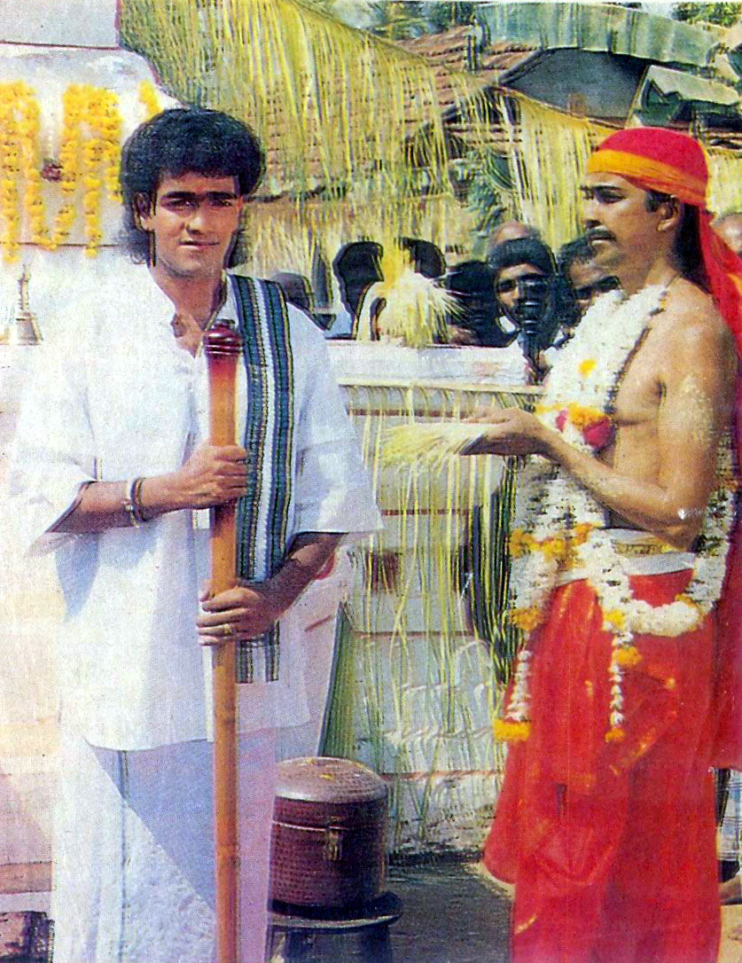 N Damodar Shetty 9